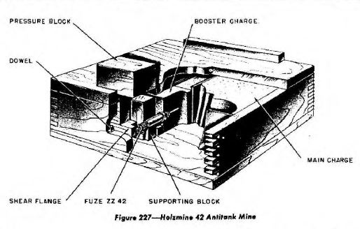 Holzmine42